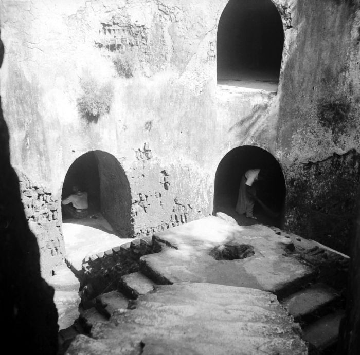 Prayer room at the sultan's water castle Taman Sari